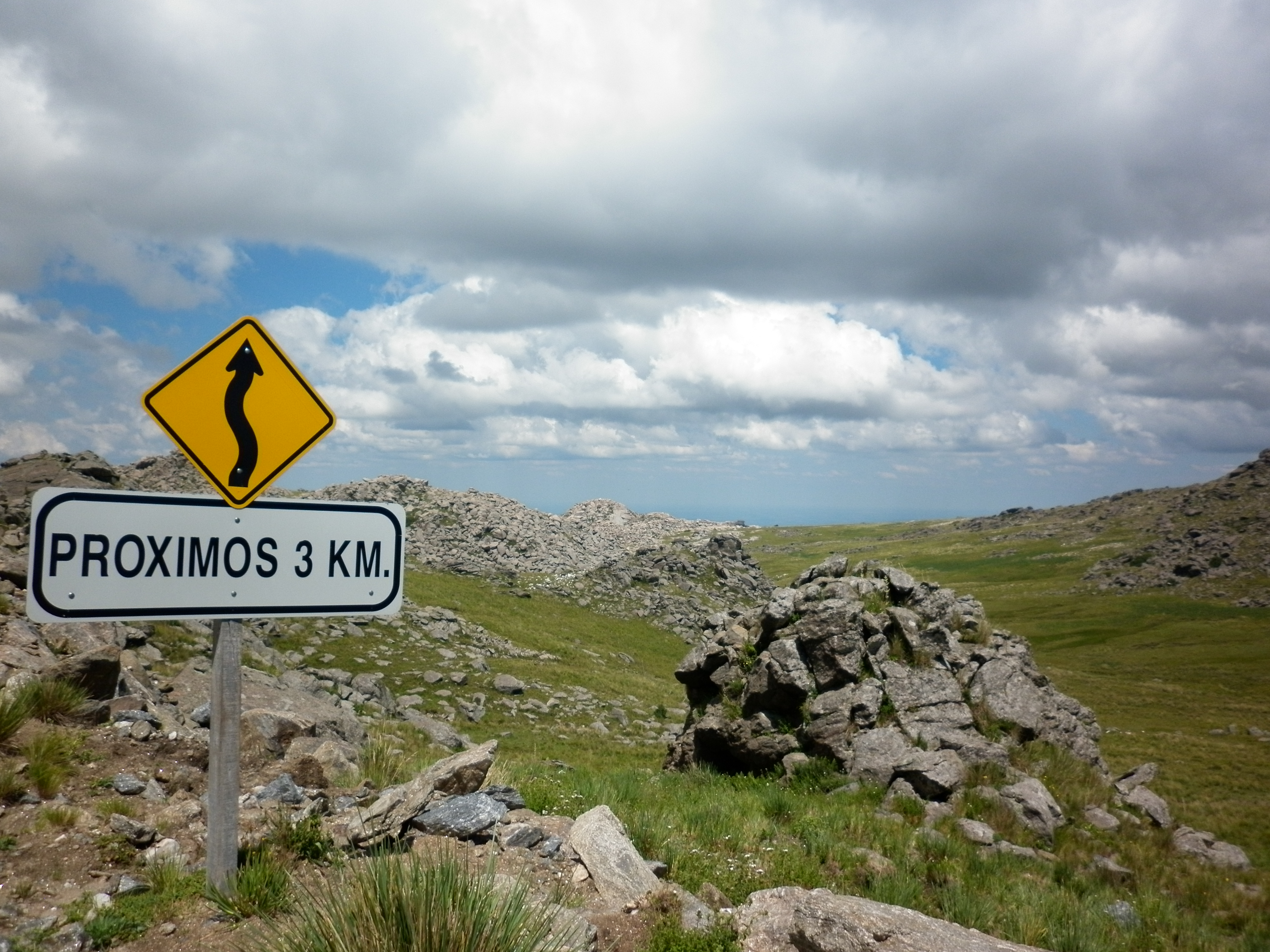 Signpost near Champaquí Hill located on the eastern slope